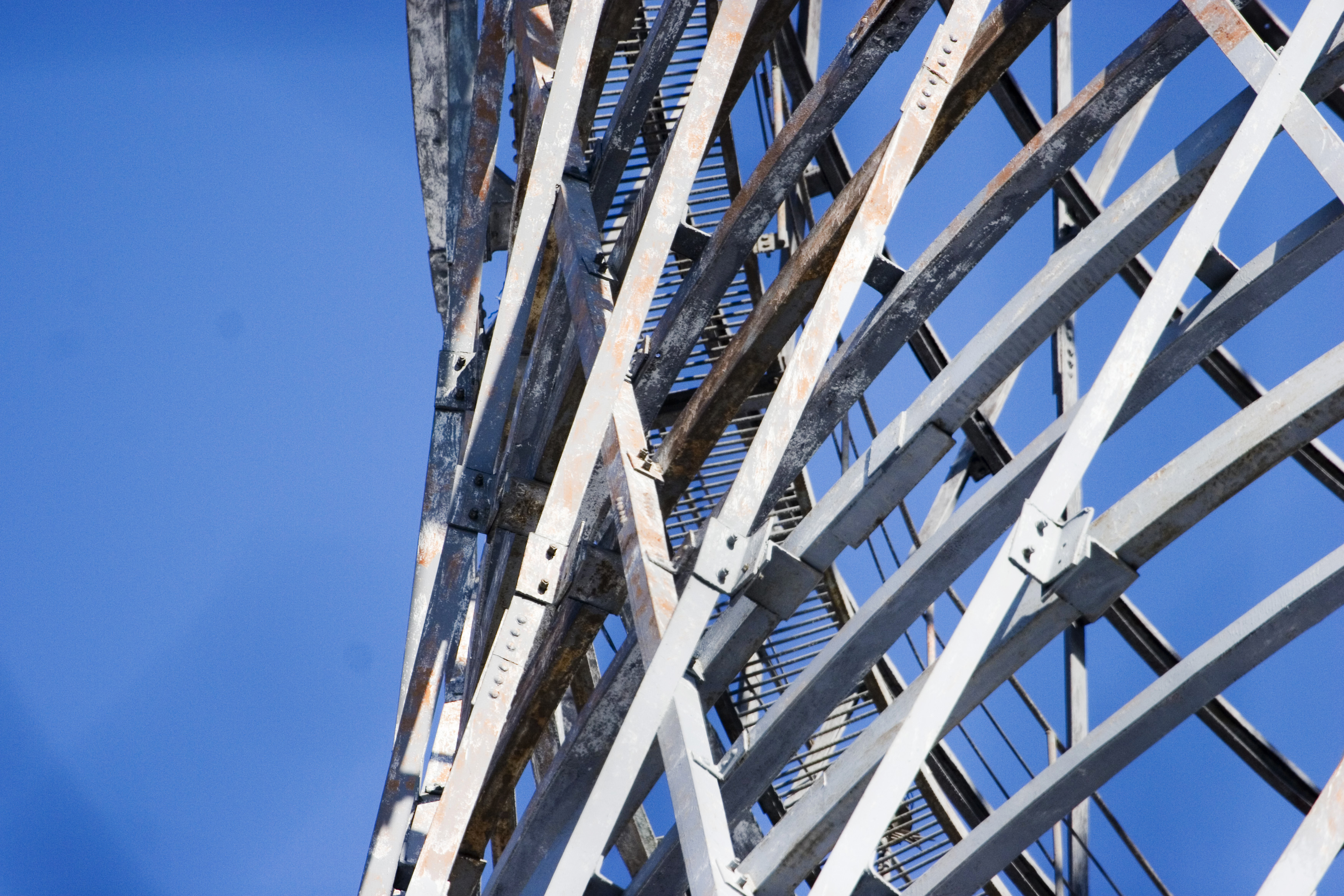 Shukhov Tower